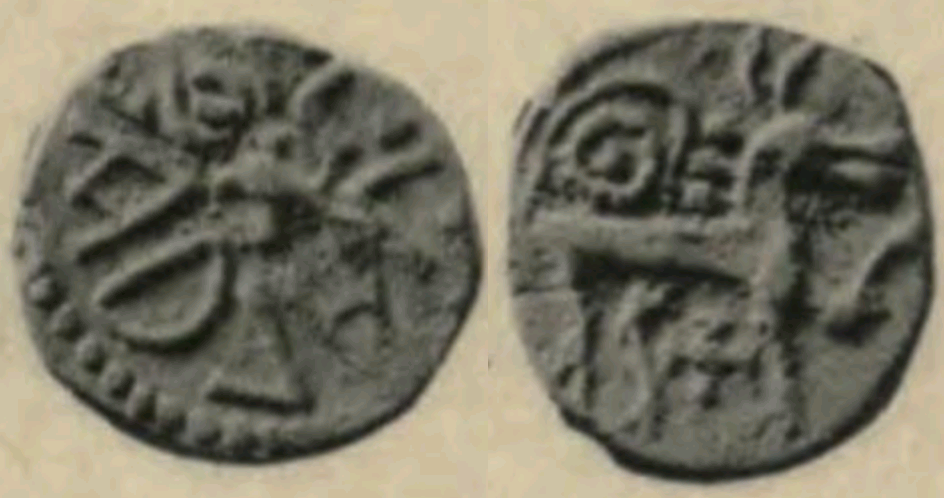 A silver sceat, .5 fine, 1 5grains, of King Ælfwald I of Northumbria, King Eadberht's grandson, who ruled from 778 until his murder in 788. A similar beast symbol is also found on the coins of Eadberht and of King Alhred, husband of Eadberht's daughter. Other beast symbols are found on coins of Aldfrith and Æthelred I.